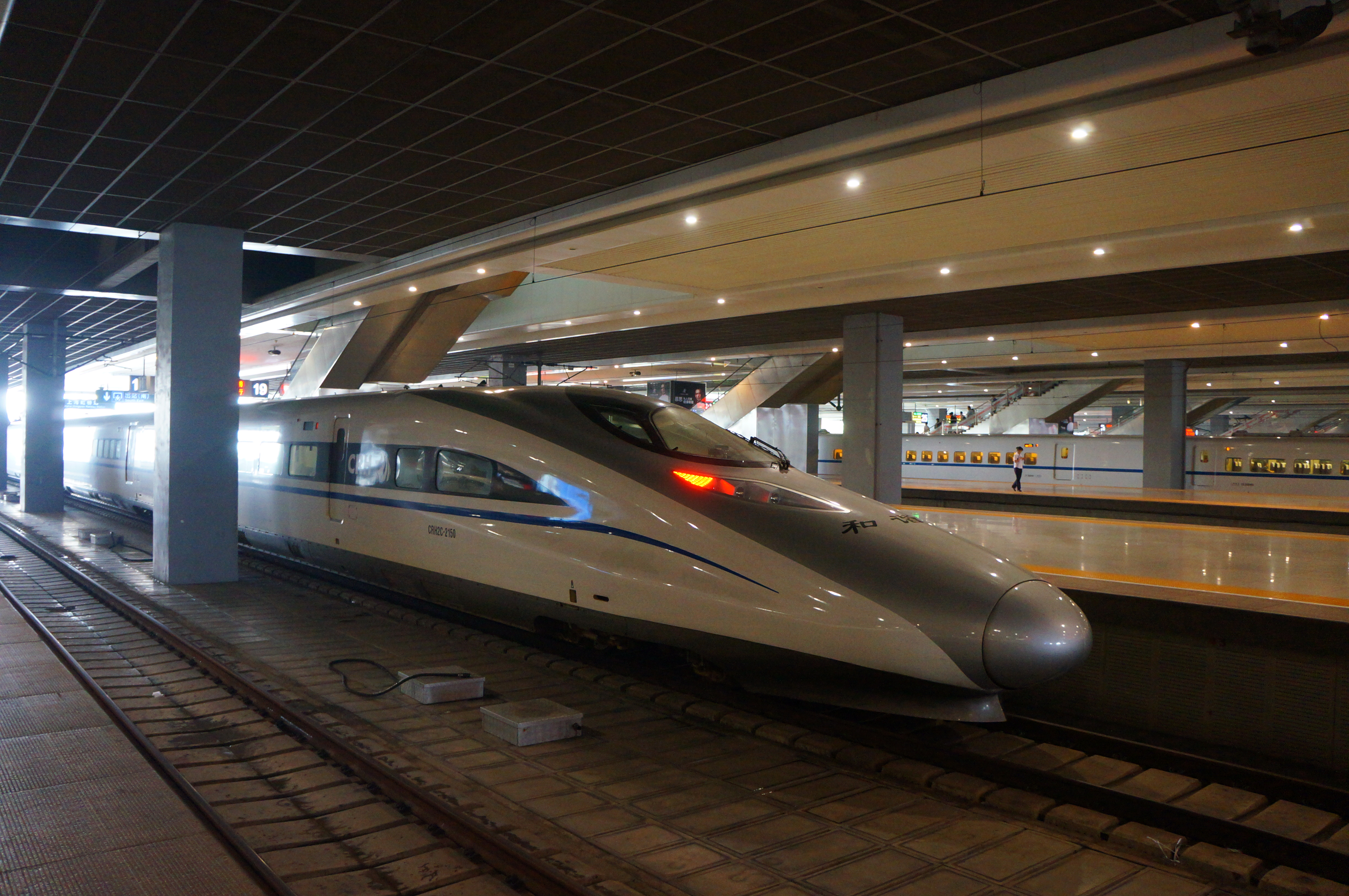 201706 CRH2C-2150 at Shanghai Hongqiao Station